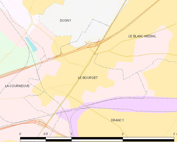 Map of French municipality Le Bourget